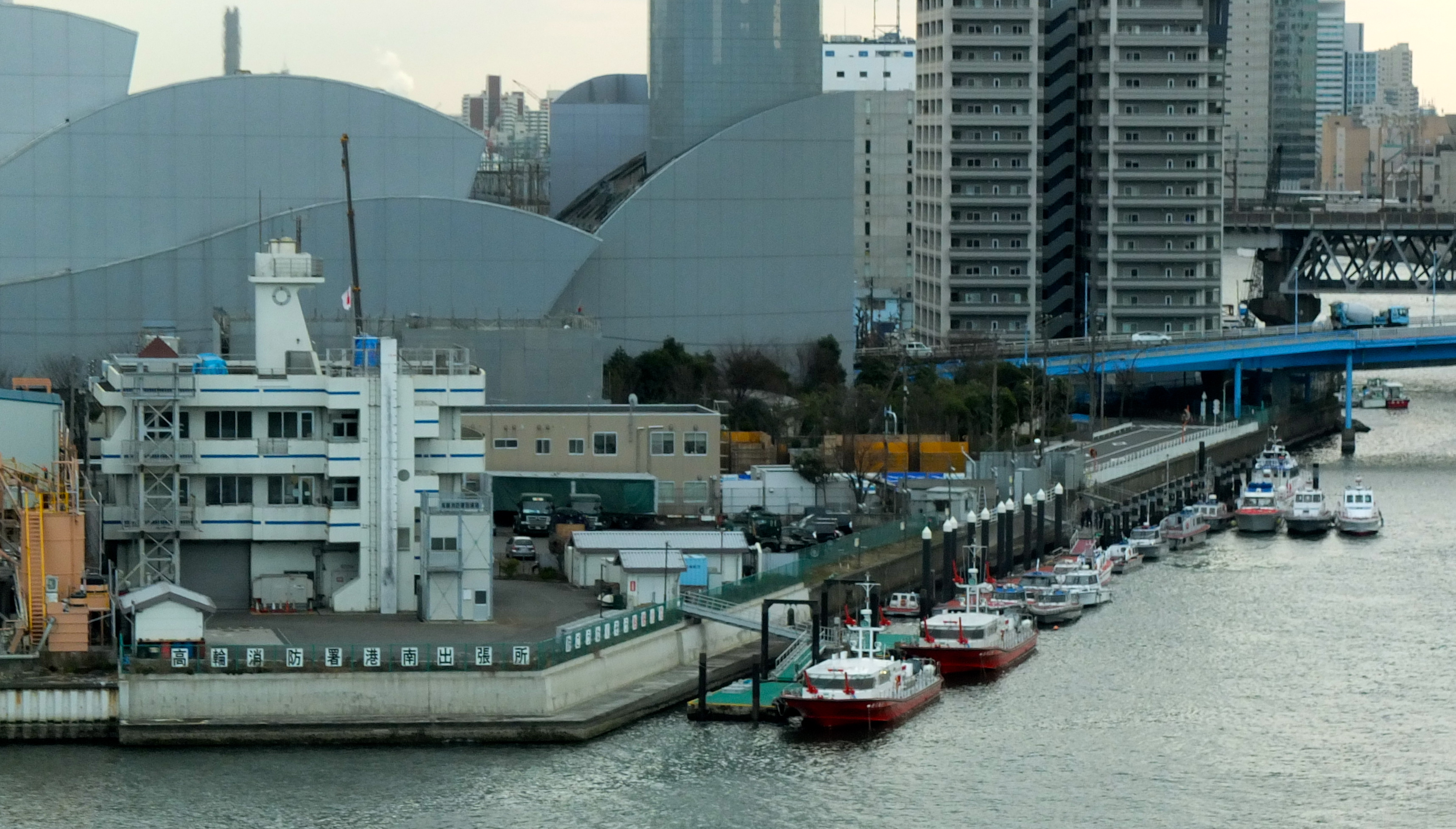 Tokyo fire dept. Kounan branch (Japan), shot from Yurikamome line.